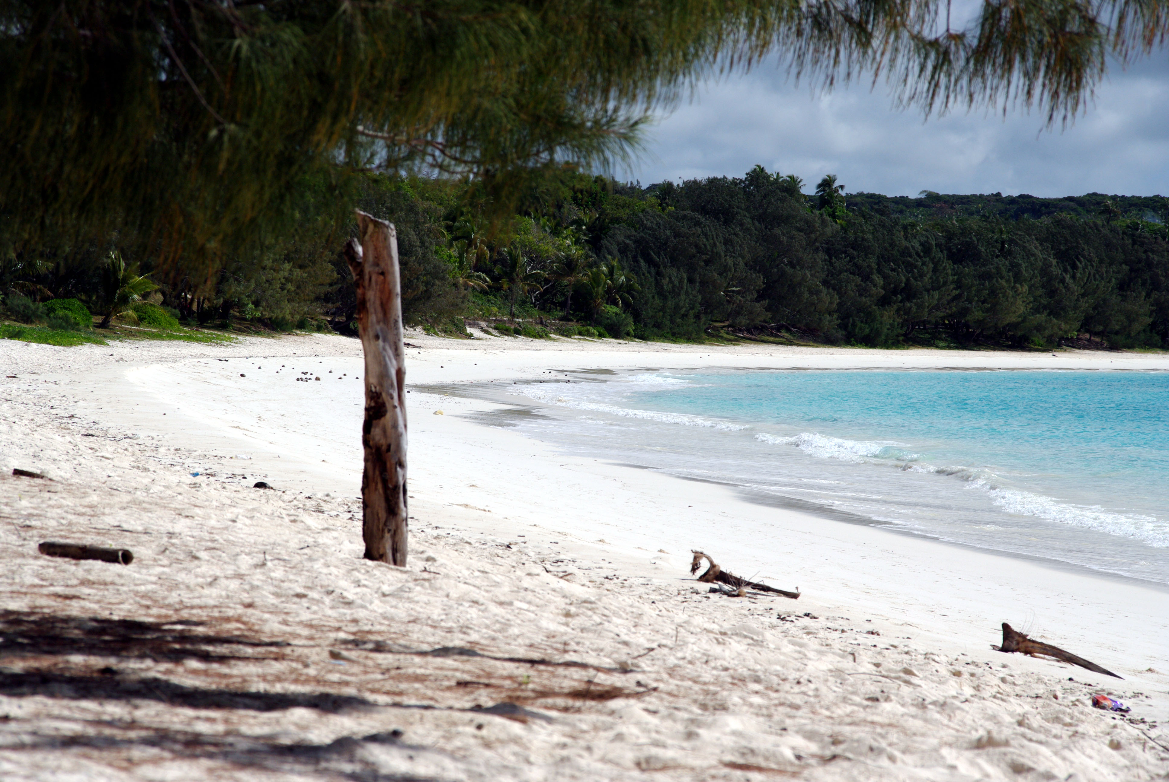 Beach of Wé, Lifou, New Caledonia